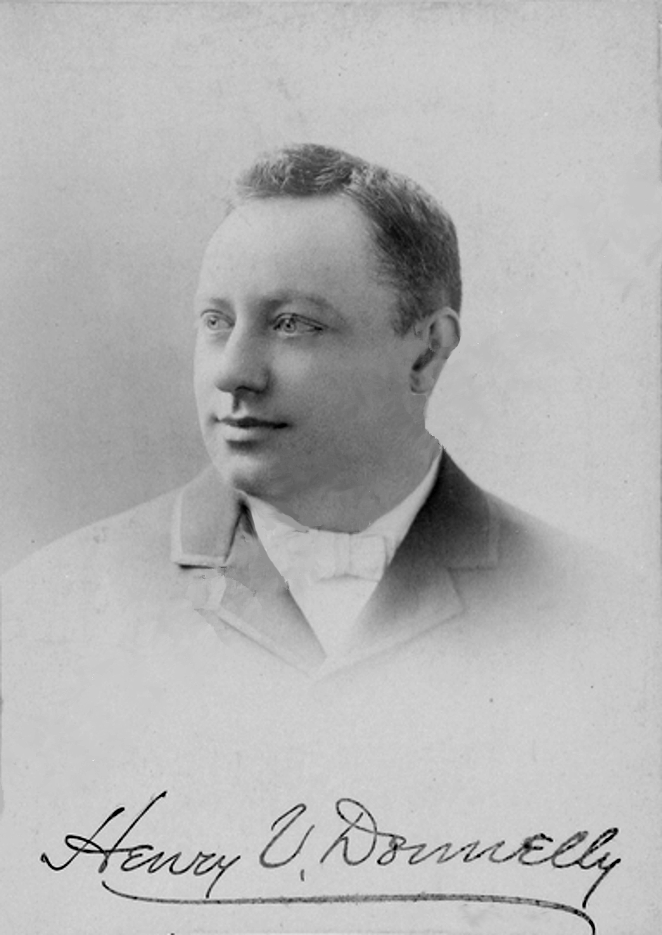 Henry V. Donnelly (1862–February 15, 1910) was an American actor and theatre producer. Earlier in his career he was part of the comedy duo Donnelly and Girard.